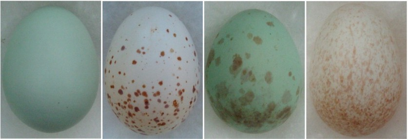 eggs of the Rattling cisticola (Cisticola chiniana)